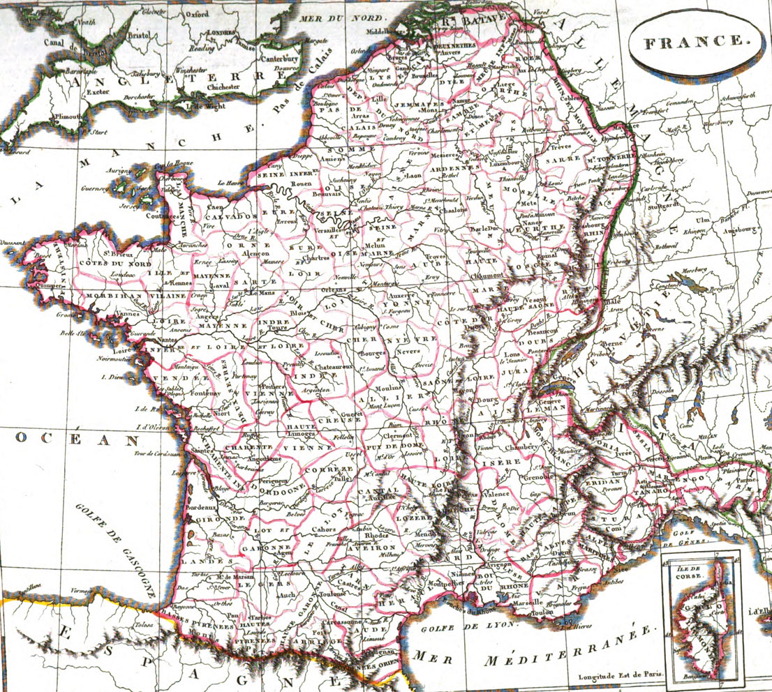 Map IV of the Atlas of J. Pinkerton translated into French by C. A. Walckenaer.